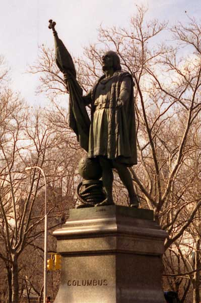 Estatua CHRISTOPHER COLOMBUS; Christopher Columbus statue, Central Park, New York City.